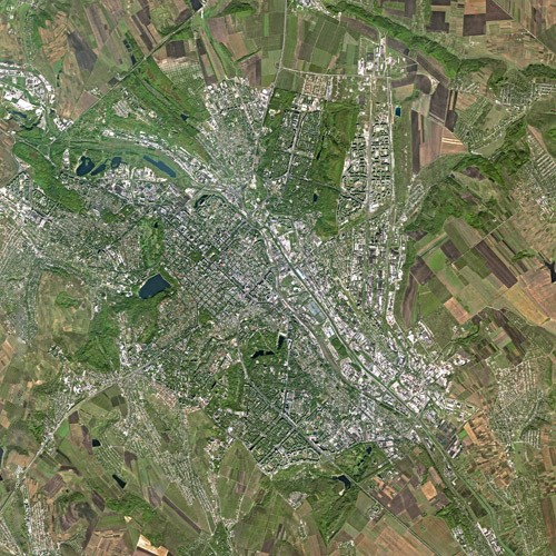 Chisinau by SPOT Satellite